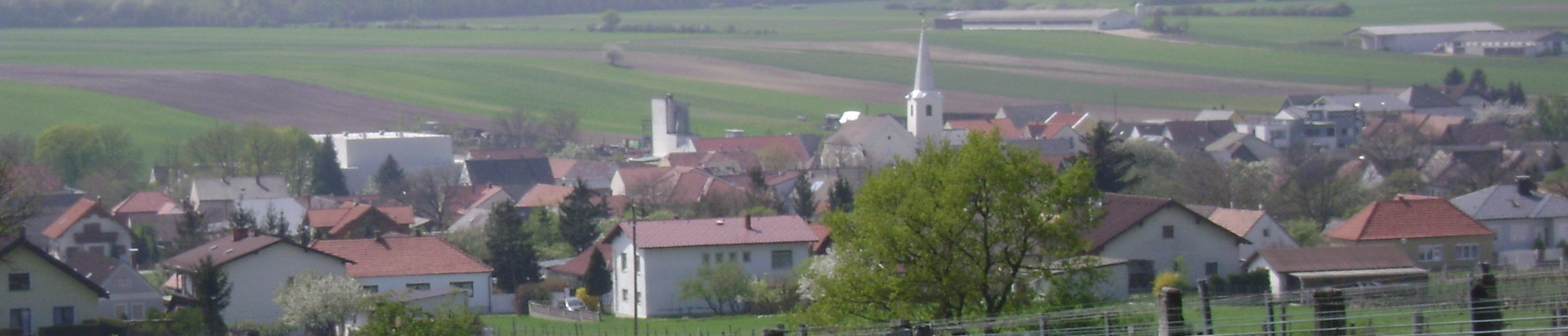 Center of Raiding, a small village in Austria, where Franz Liszt was born.